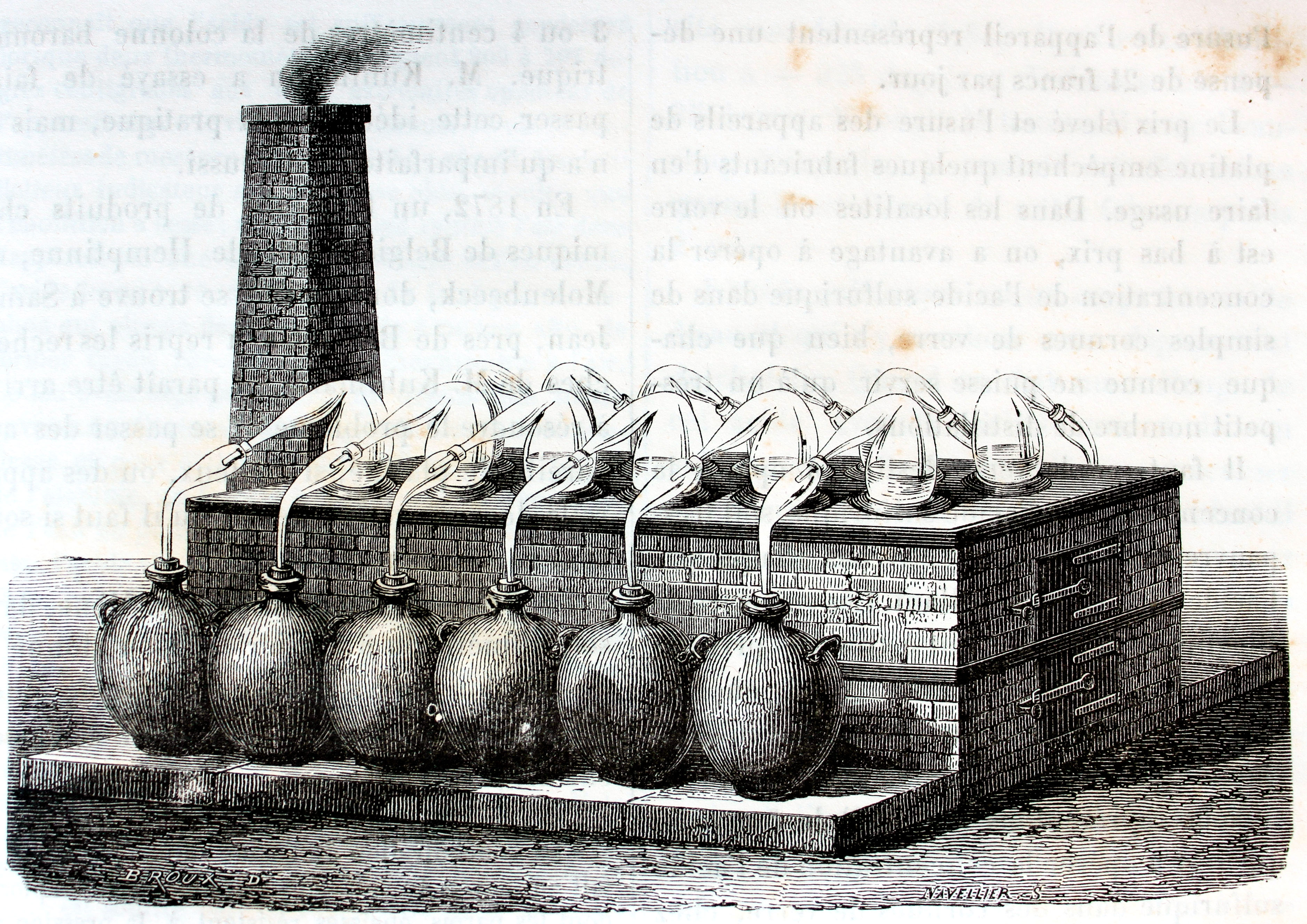 "Concentration of sulfuric acid in glass retorts"